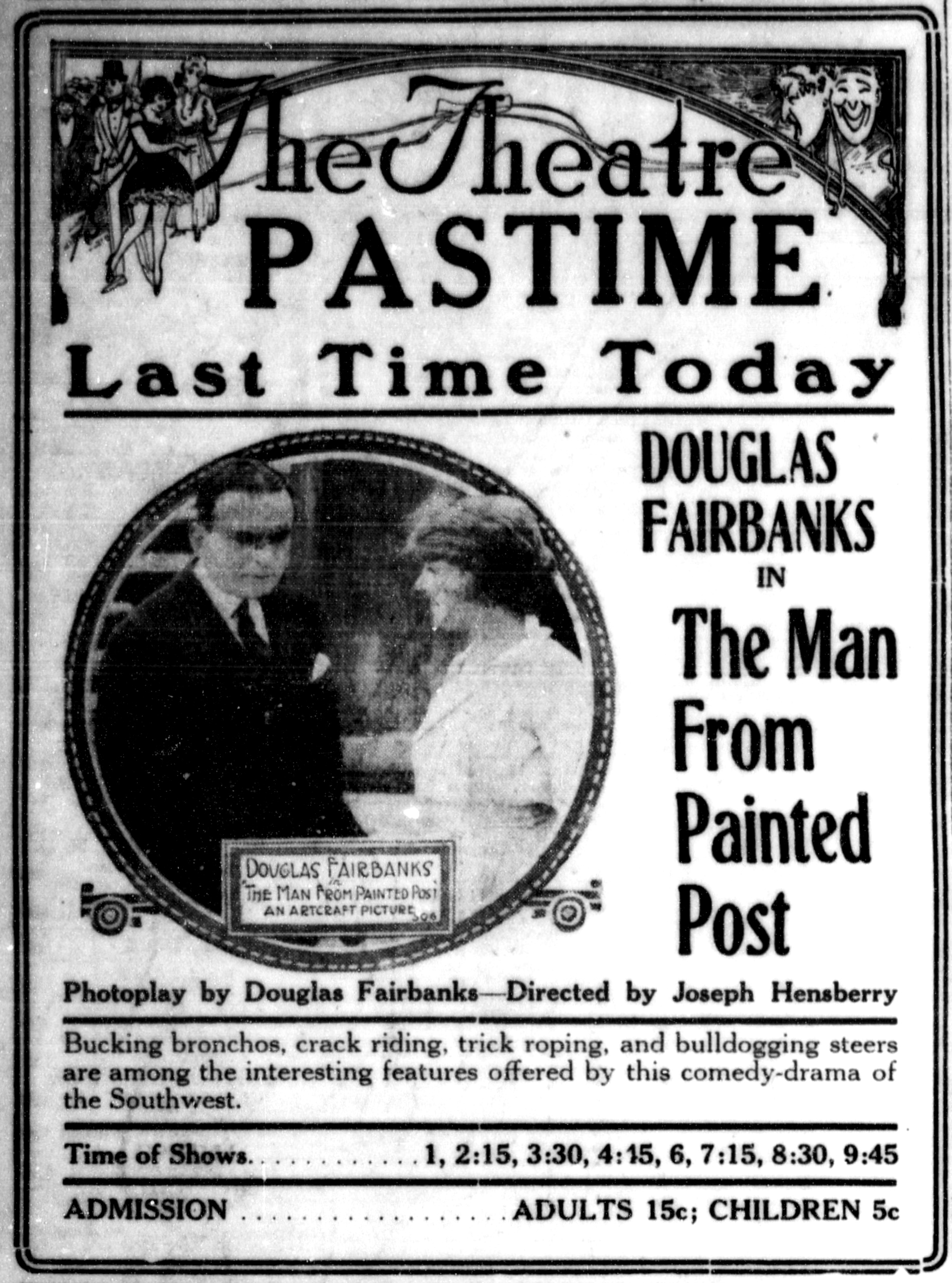 The Man from Painted Post is a 1917 Western drama produced by and starring Douglas Fairbanks. This is a newspaper advert.